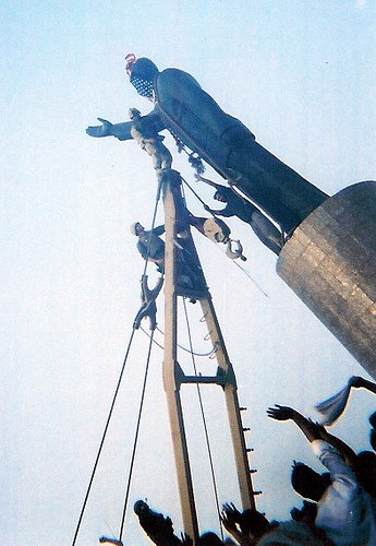 Statue of Saddam Hussein being toppled in Firdos Square after the US invasion of Iraq.